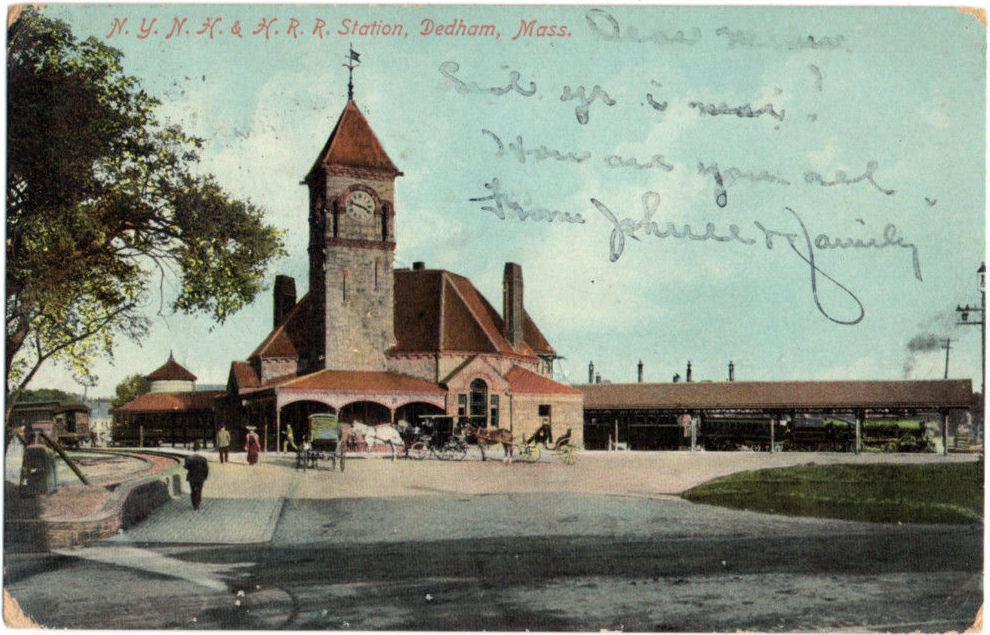 1910 divided back postcard of Dedham station